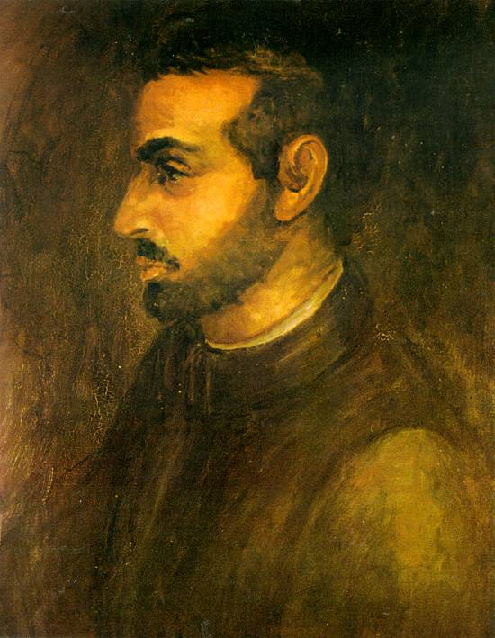 Portrait of Juan de Anchieta.